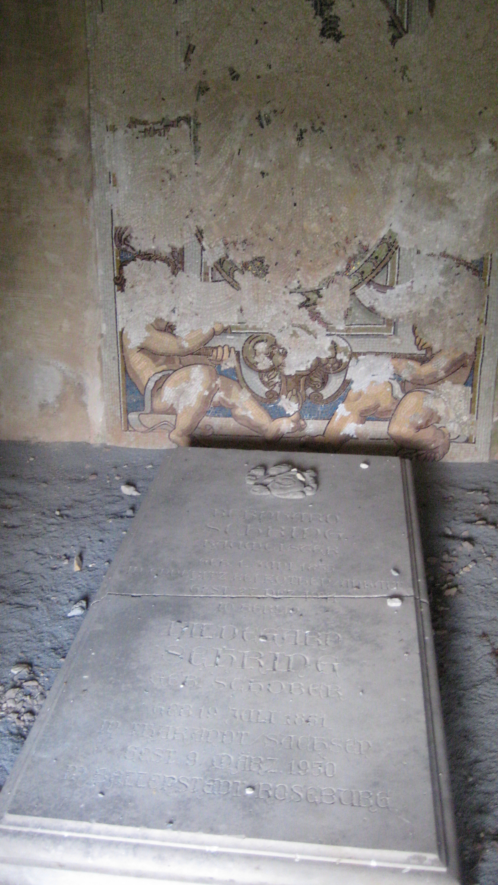 Roseburg (Schlos) Hildegard Schober (19.7.1861 - 9.3.1950) Burialplace